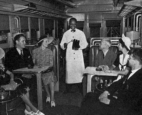 Photo from an article about the B&O using the NBC chimes to call passengers to meals at the request of the radio network from the Baltimore and Ohio railroad's employee magazine from August 1938.